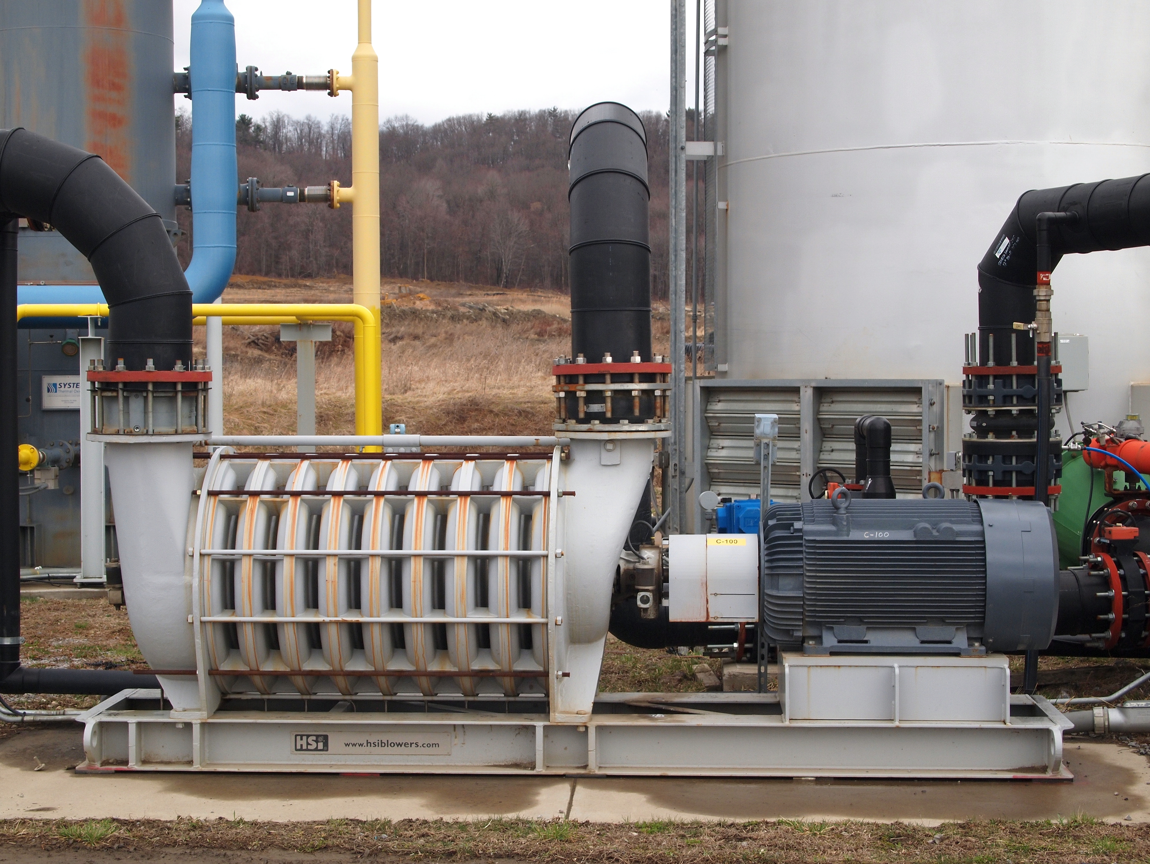 Multistage centrifugal pump is used to pump landfill gas for further processing